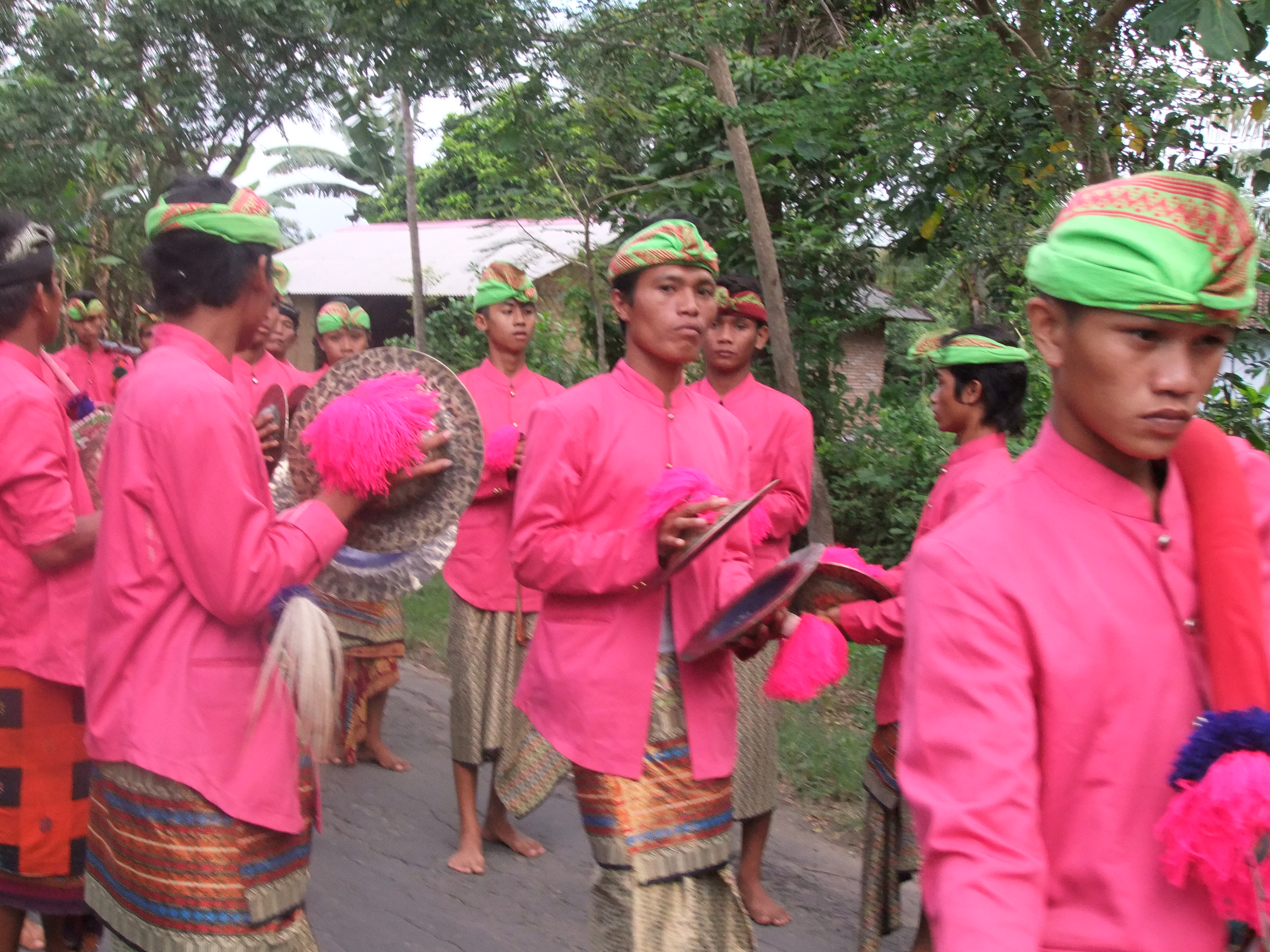 Gendang Beleq, Lombok, Indonesia